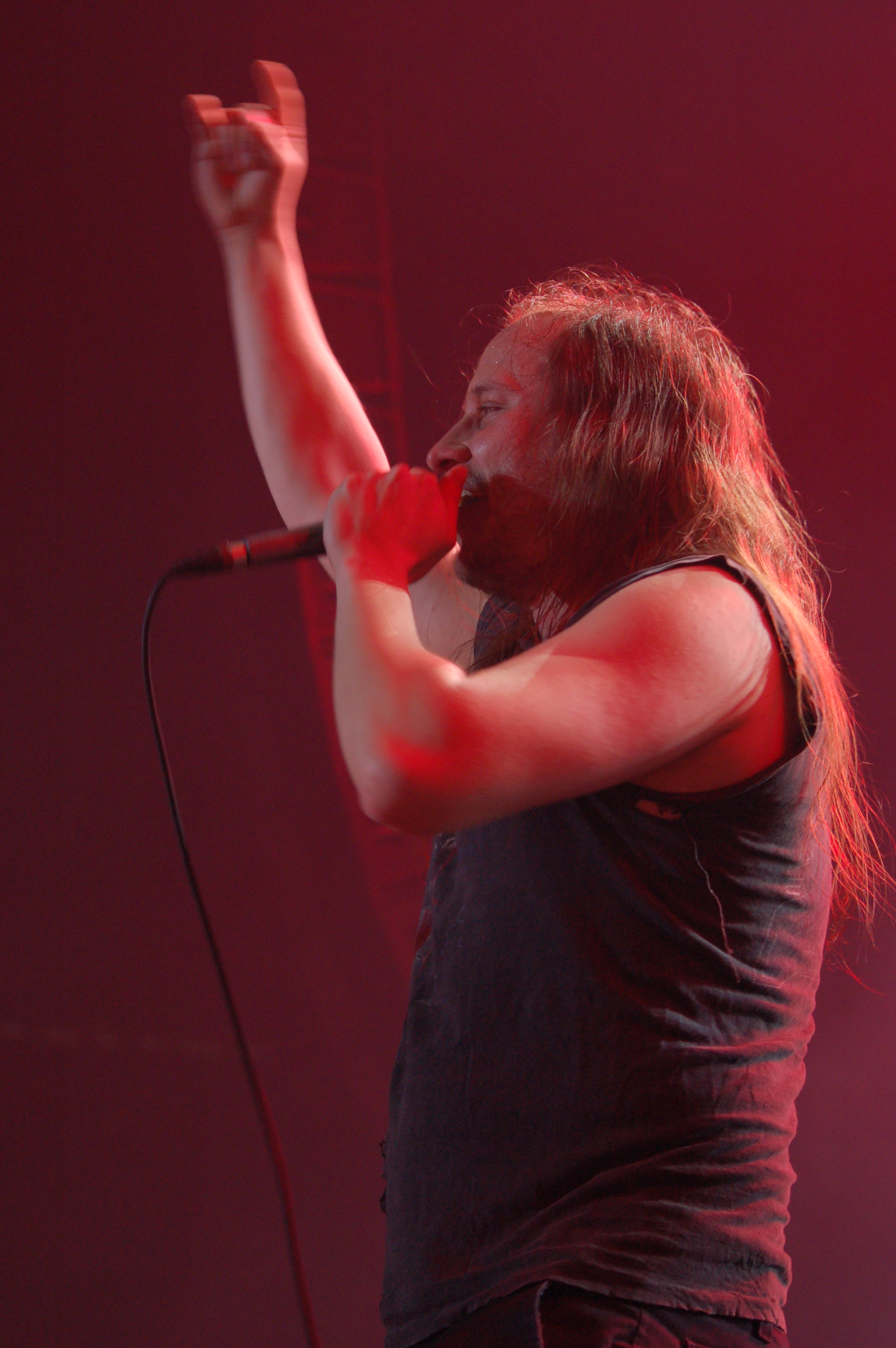 Lars Göran Petrov from Entombed during Metalmania 2007 festival